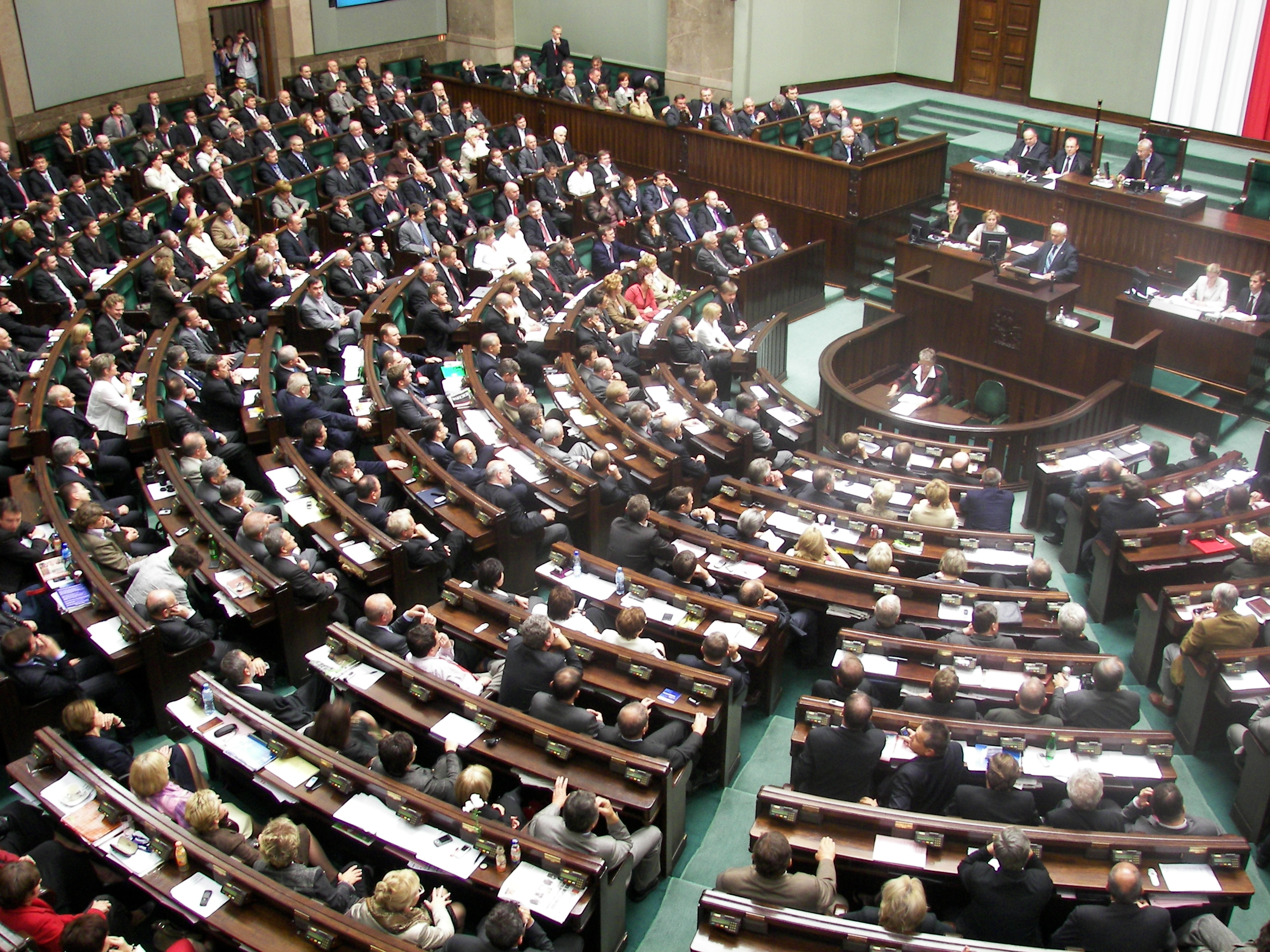 Poland's parliament called early elections (Fri Sep 7, 2007)